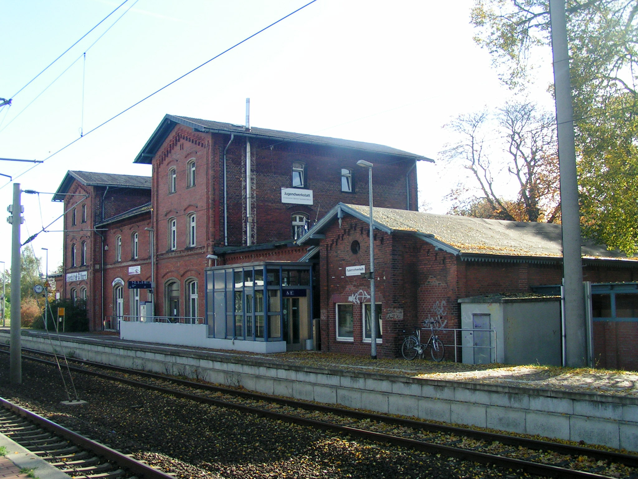 Former building of Gifhorn-Isenbüttel railroad station in Gifhorn, Germany. While the station itself is still in operation, the building has been replaced by a new one at the opposite side of the tracks.